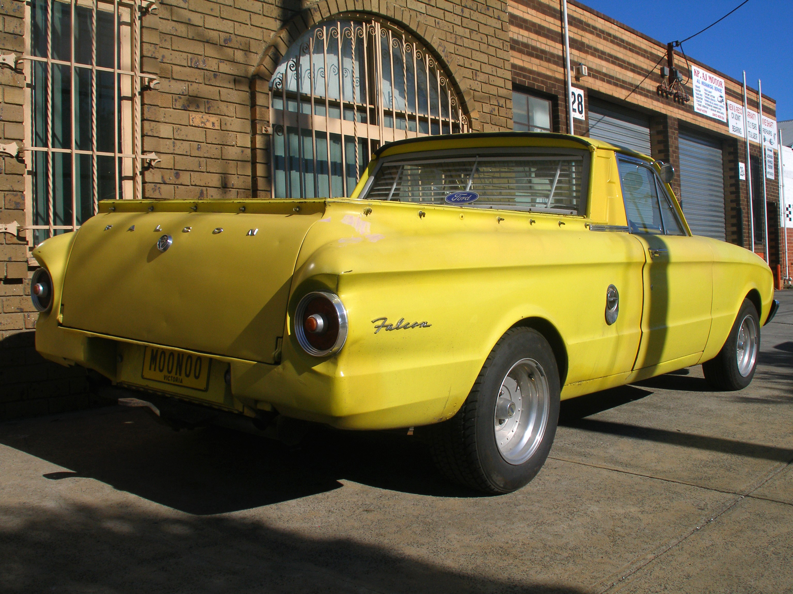 Ford XL Falcon Utility. Main difference between the US and Aussie models is the length of the cabin section - the US one is longer using the two door sedan doors. This model sporting wider non-factory rims and rear cut out fenders, and possibly two petrol tanks.